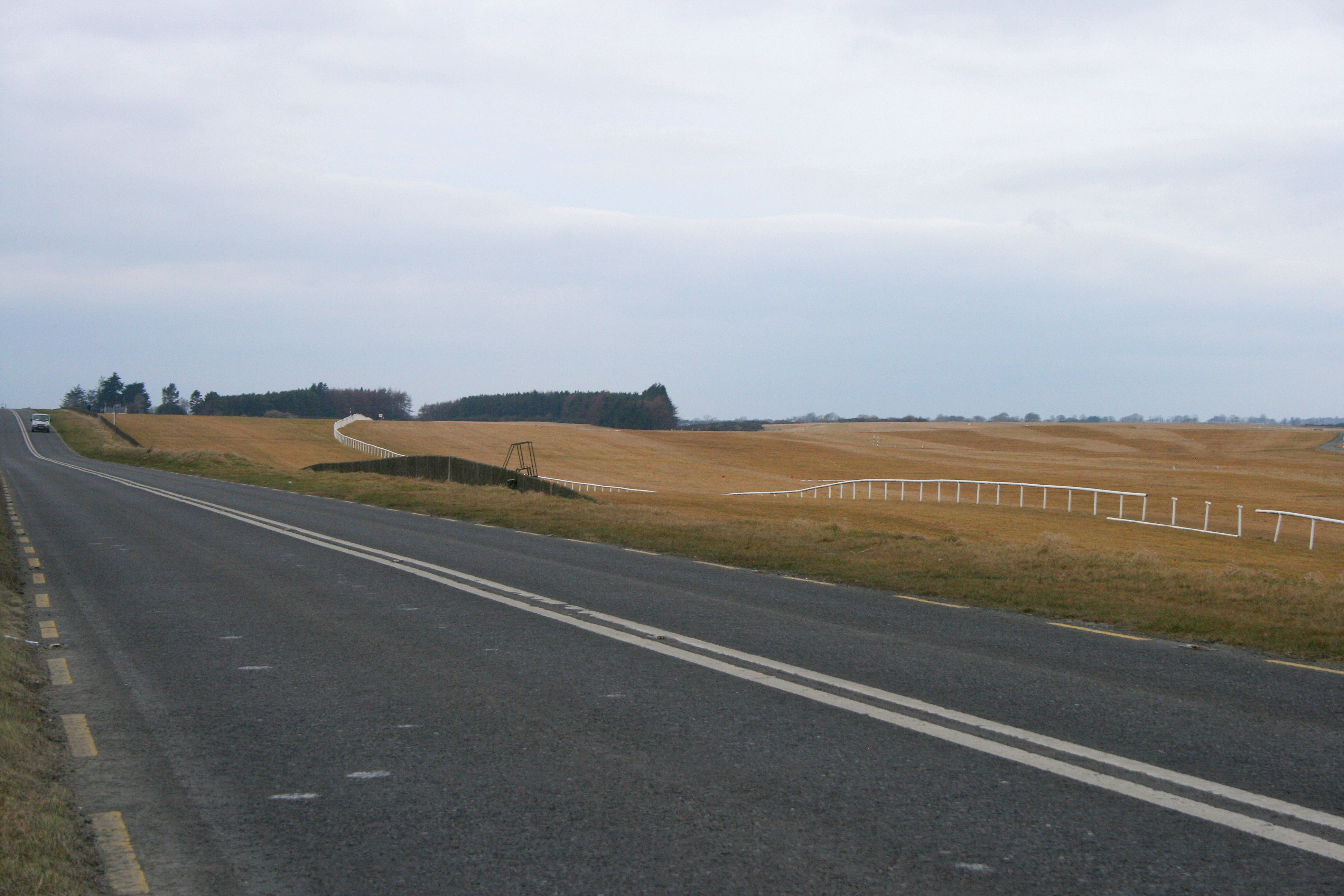 R455 road (former main Dublin - Cork/Limerick) passing through the Curragh.